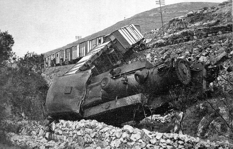 Palestine Railways H3 class 4-6-4T steam locomotive (converted from a WW1 Baldwin 4-6-0) and freight train on the Jaffa and Jerusalem line after being sabotaged by Jewish terrorists, 1946